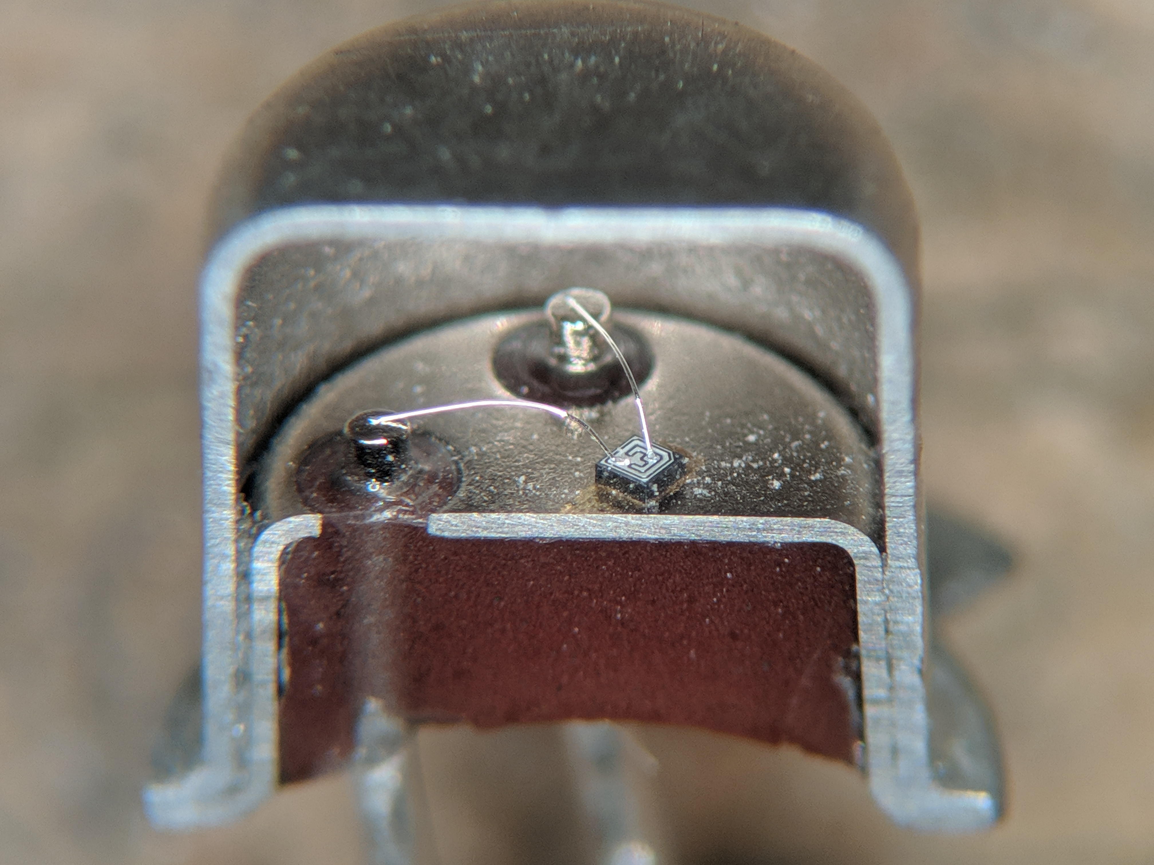 Cross section of a 2N2222 in the TO-18 package. This part was made by ST Micro.